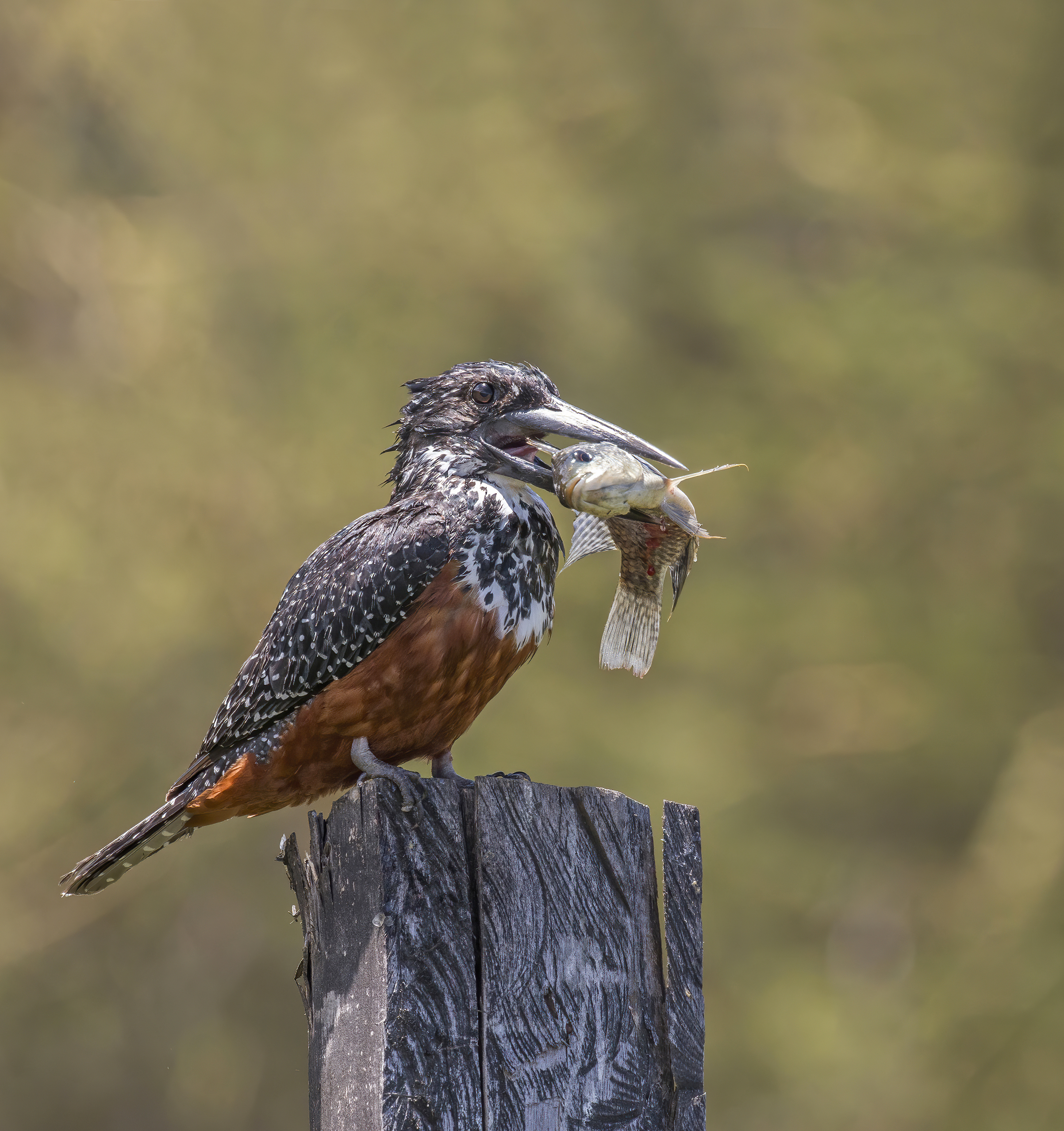 Giant kingfisher (Megaceryle maxima) female, Lake Naivasha, Kenya